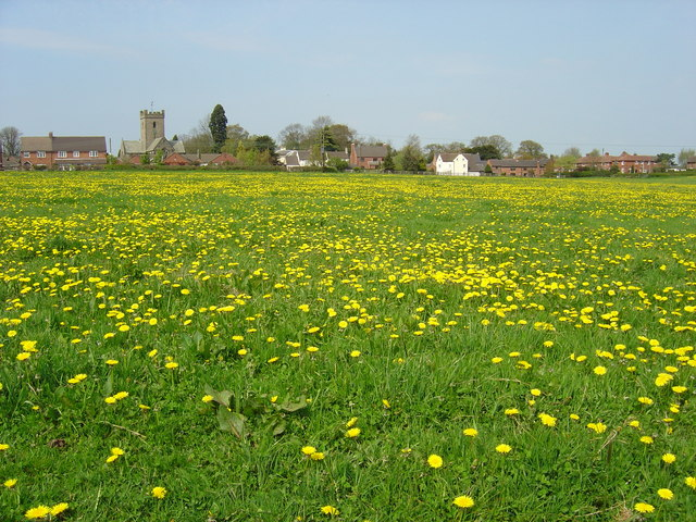 All Saints church and Church leigh Village